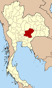 Map of Thailand highlighting Nakhon Ratchasima province